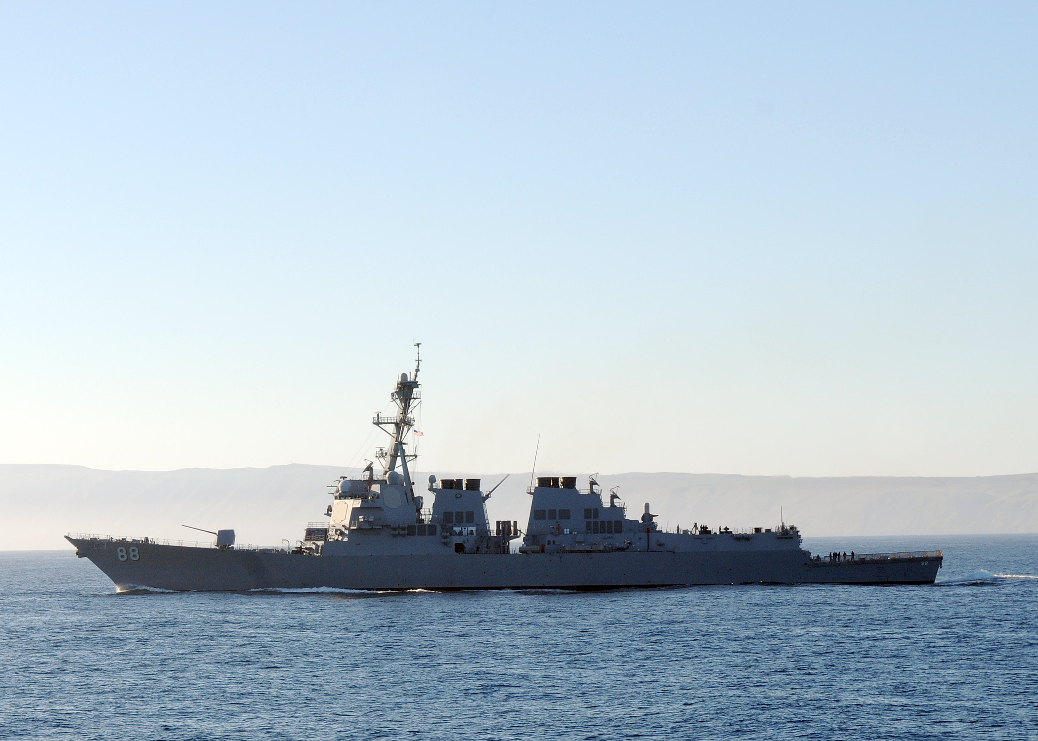 PACIFIC OCEAN (Nov. 01, 2010) The Arleigh Burke-class guided-missile destroyer USS Preble (DDG 88) provides protection for the aircraft carrier USS Ronald Reagan (CVN 76) during a simulated straits transit exercise. Ronald Reagan is underway completing a composite training unit exercise in preparation for an upcoming deployment. (U.S. Navy photo by Mass Communication Specialist 3rd Class Shawn J. Stewart/Released)